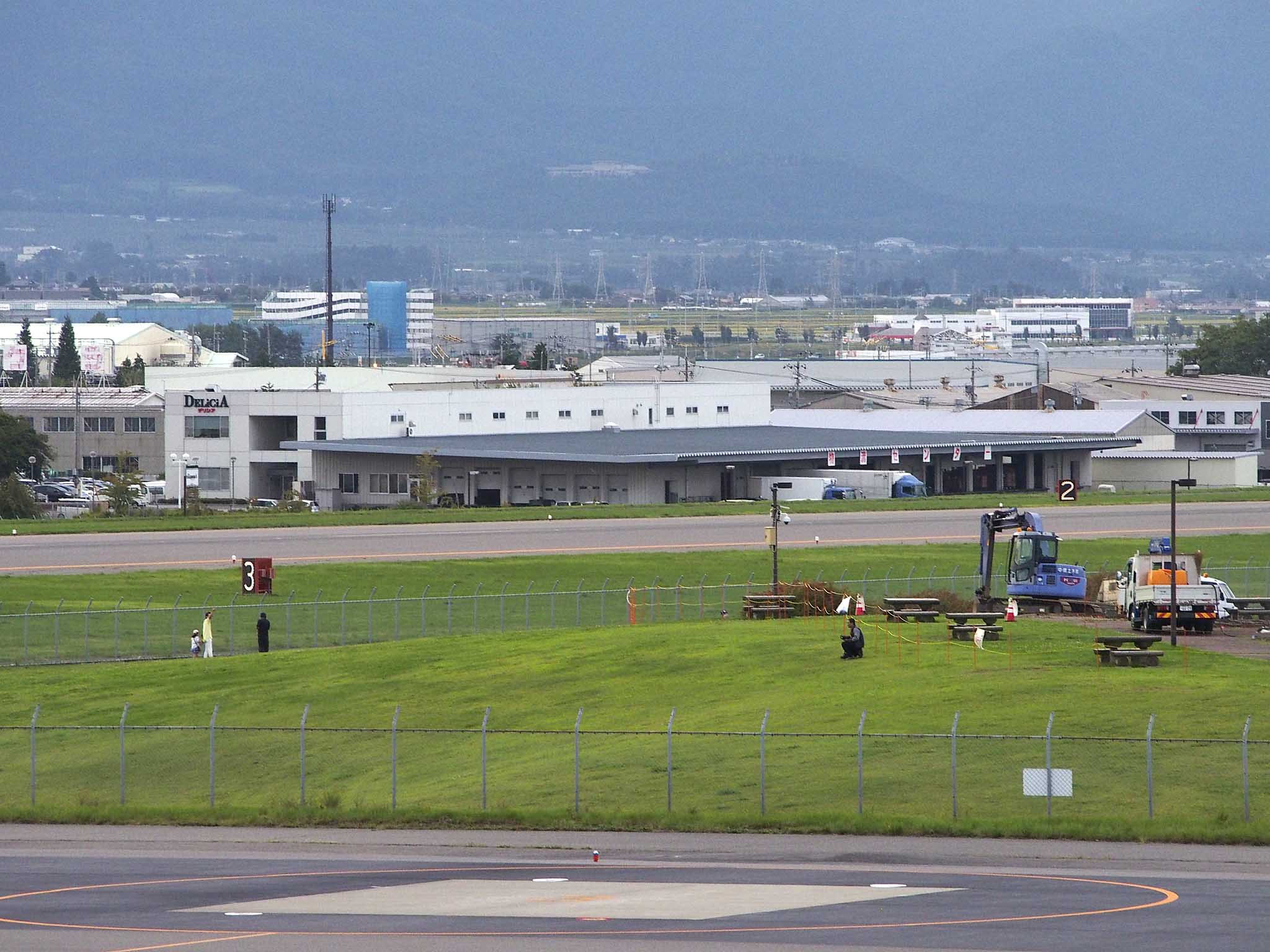 Head office of Delicia, supermarket of Alpico Group, located at Imai, Matsumoto City, neighbor of Matsumoto Airport.